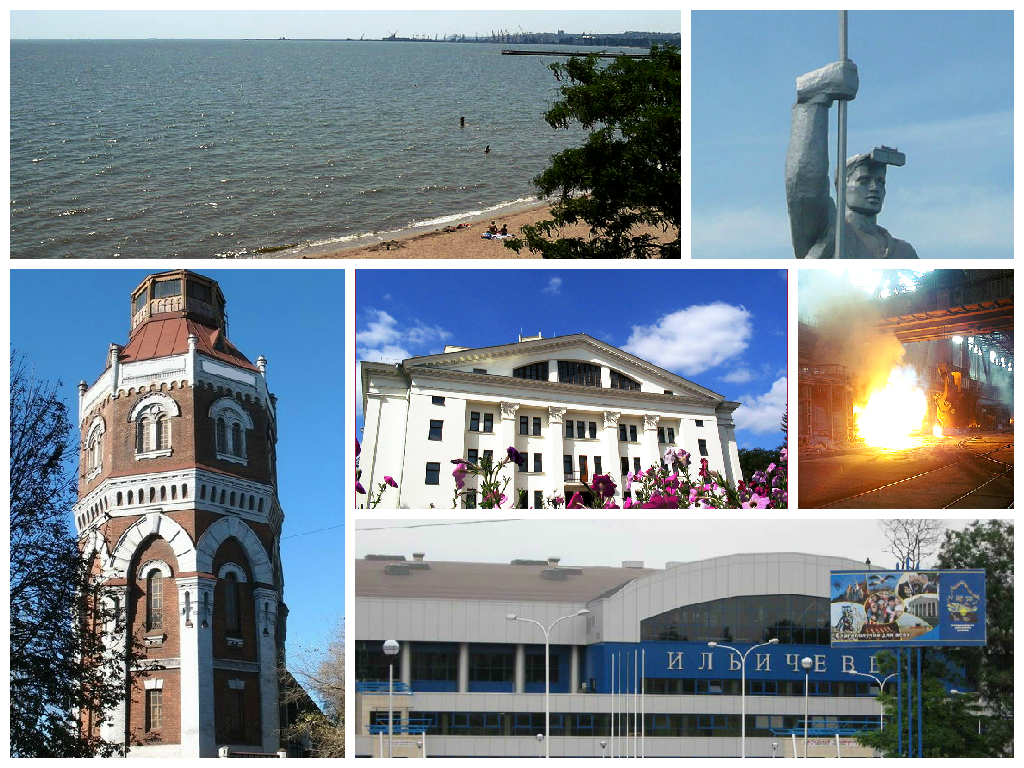 Mariupol city collage